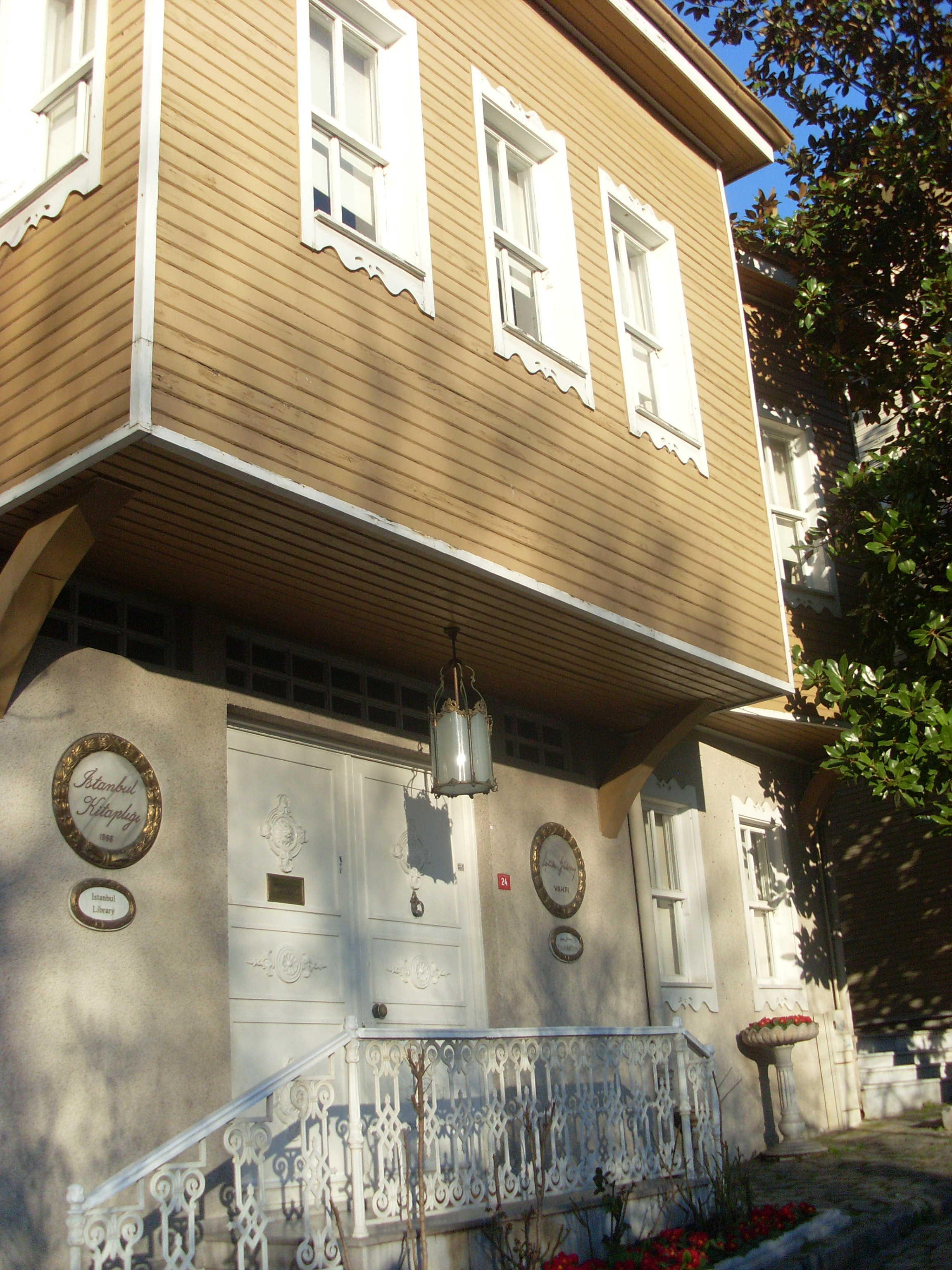 İstanbul - Soğukçeşme Sokağı r3 - Mar 2013